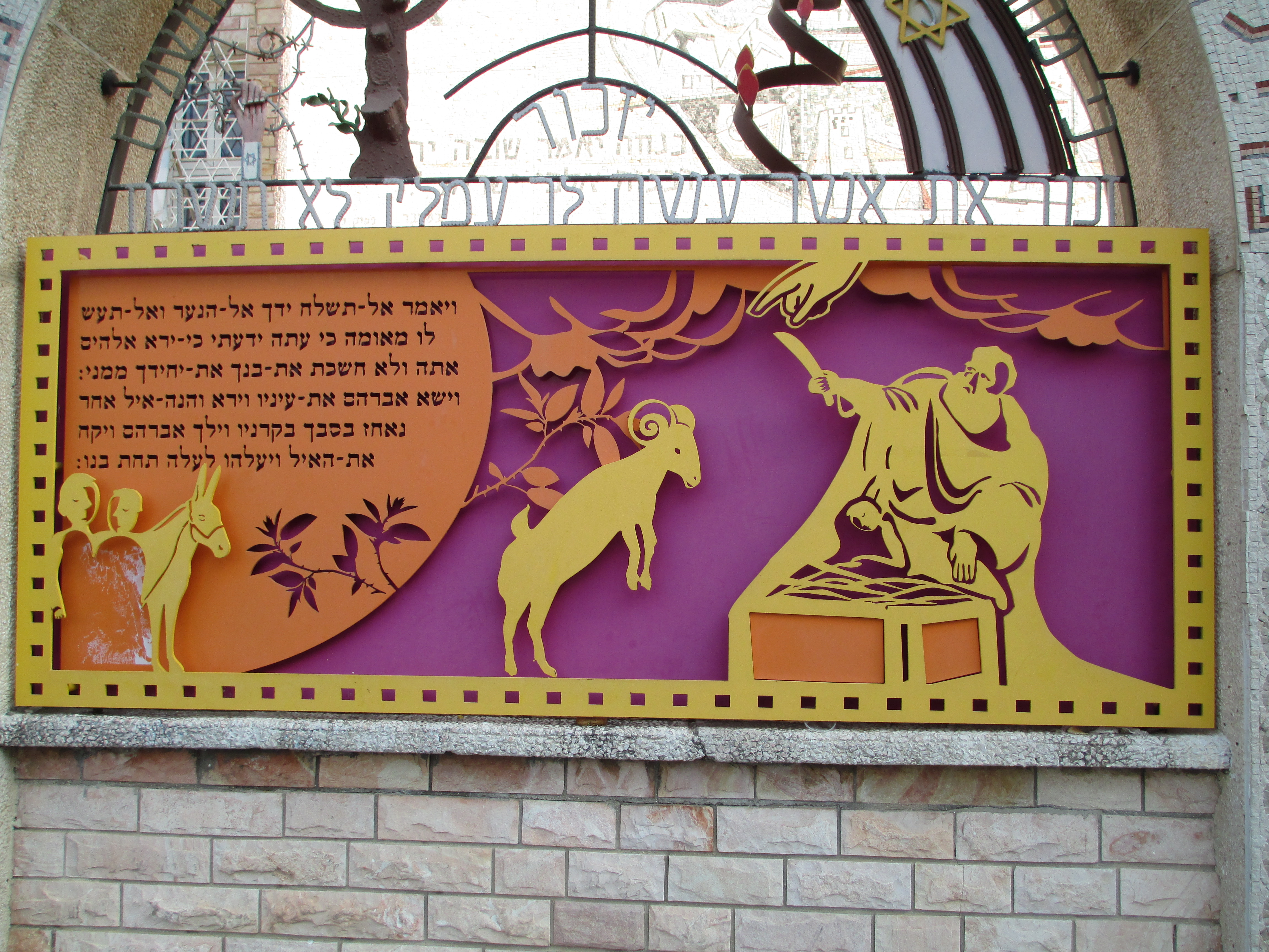 Or Torah Synagogue in Acre-Binding of Isaac